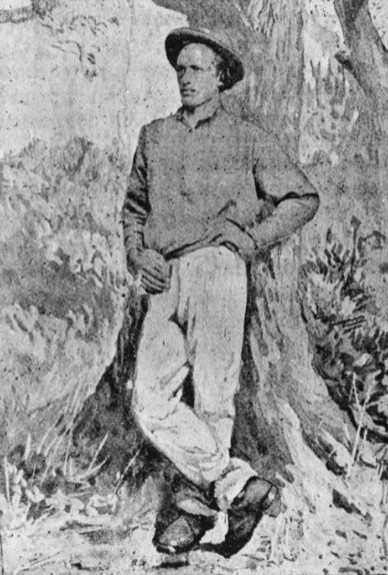 Bushranger James MacPherson, 1866 Known as 'The Wild Scotsman'. He roamed from Bowen in North Queensland as far as New South Wales and was captured in the Wide Bay region, near Gin Gin in March 1866. He was imprisoned on St. Helena Island and eventually pardoned and released in December 1874. He later met and married Elizabeth Ann Hoszfeldt and they had seven children, one of whom died as a baby. They lived most of their married life in Burketown. On 23 July 1895, James died after falling from his horse and was buried in an unmarked grave in Burketown cemetery.